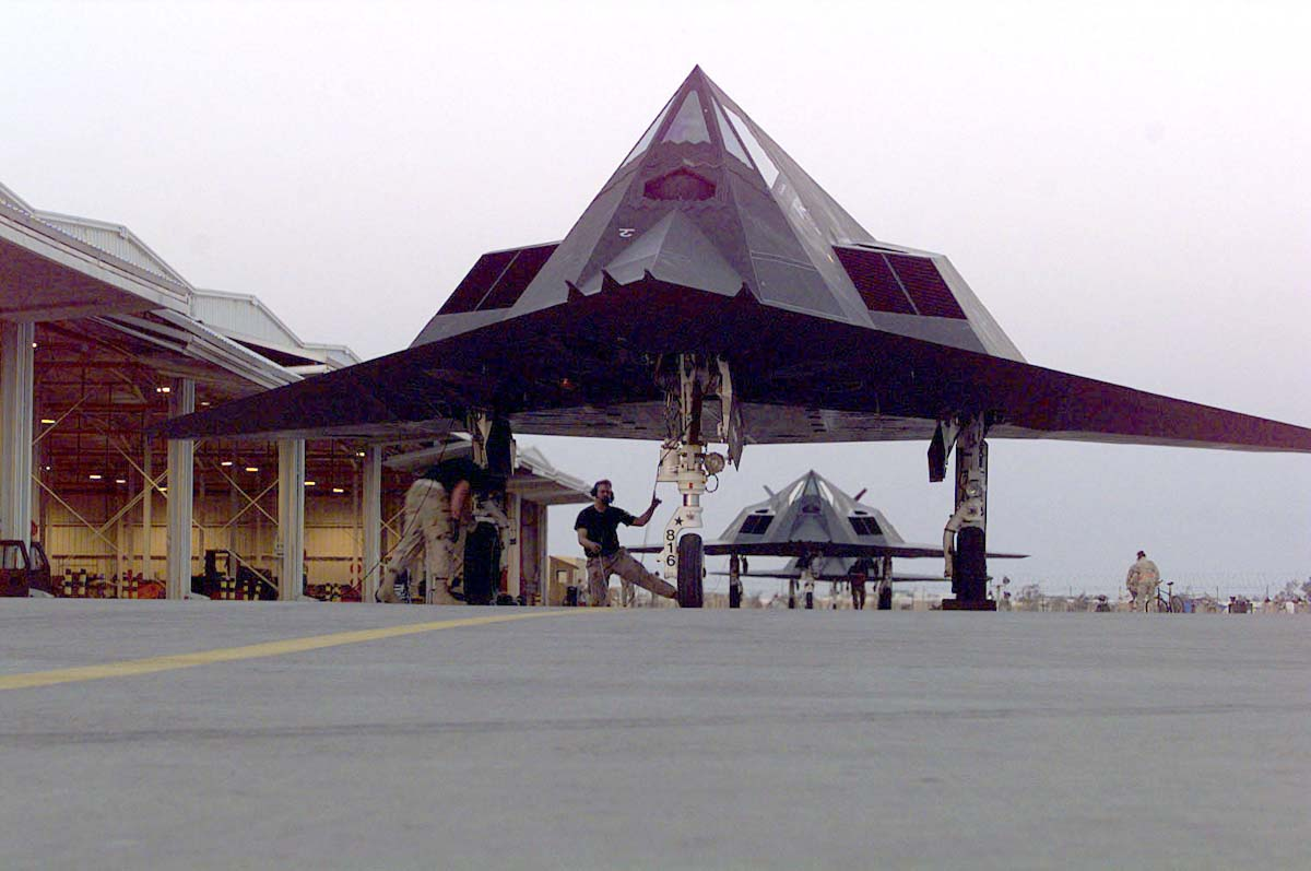 Several F-117 Nighthawks belonging to the 8th Fighter Squadron, 49th Fighter Wing, Holloman Air Force Base, New Mexico, are being prepared for a mission on March 15, 1998. The 8th FS is deployed to Al Jaber Air Base, Kuwait, in support of the SWA buildup.